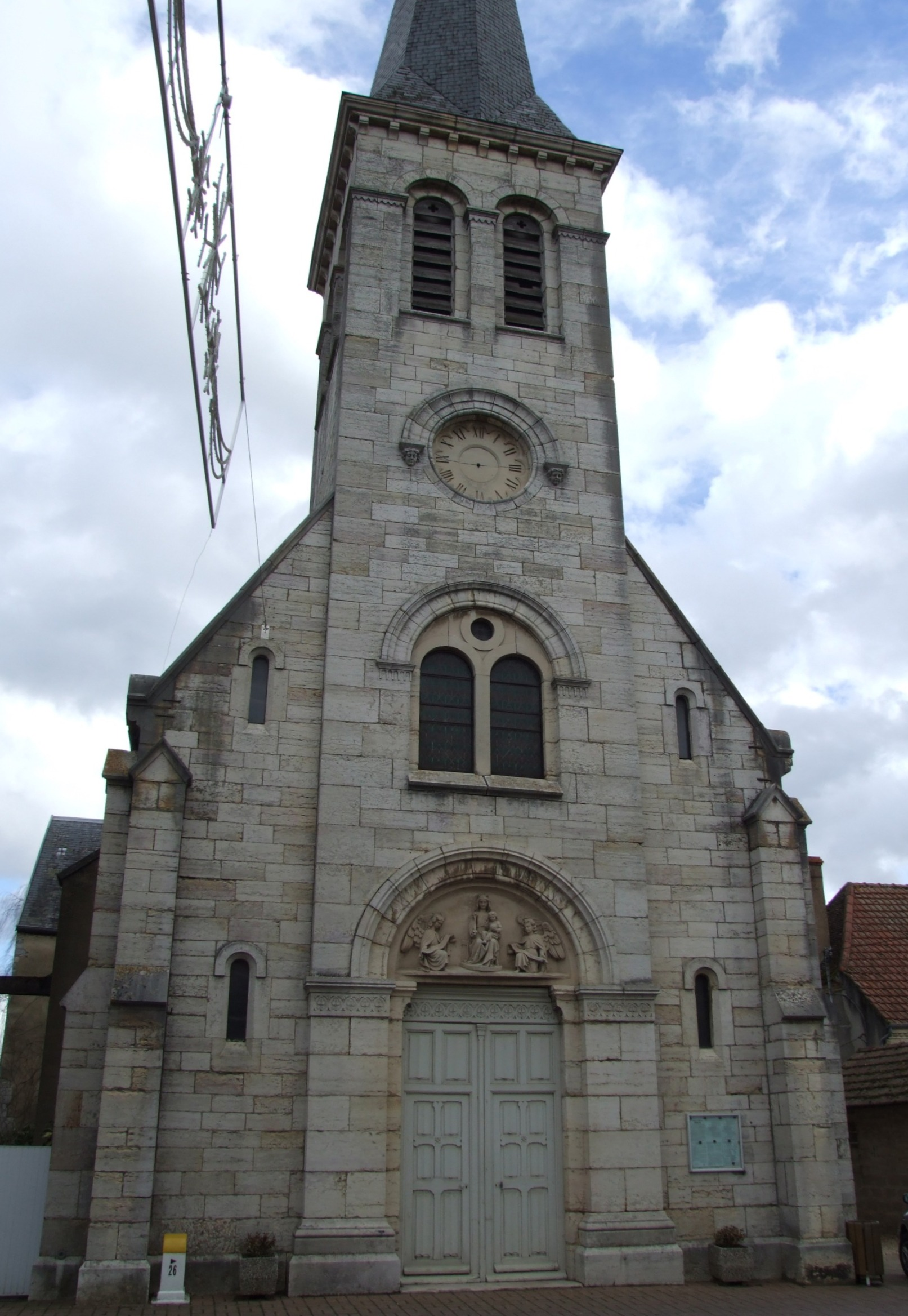 Burgundy, FRANCE